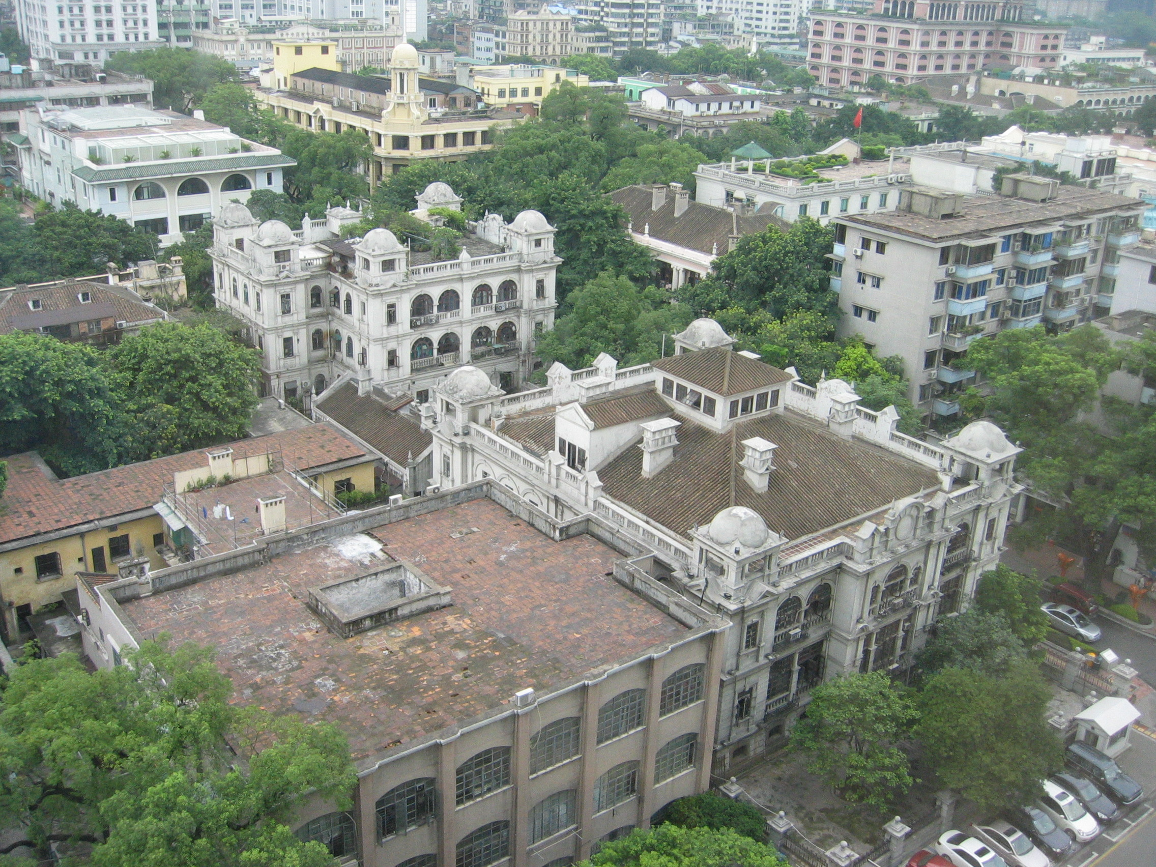 Western-style buildings on Shamian Island, Guangzhou, China